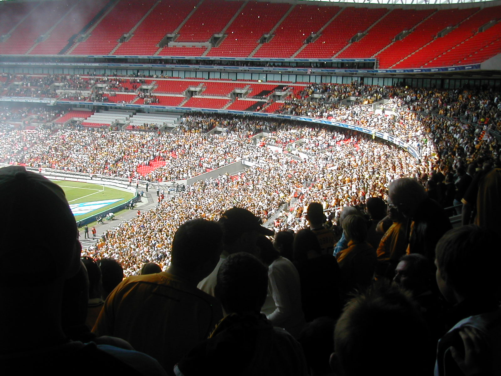 Personal photo, Hugh Burton